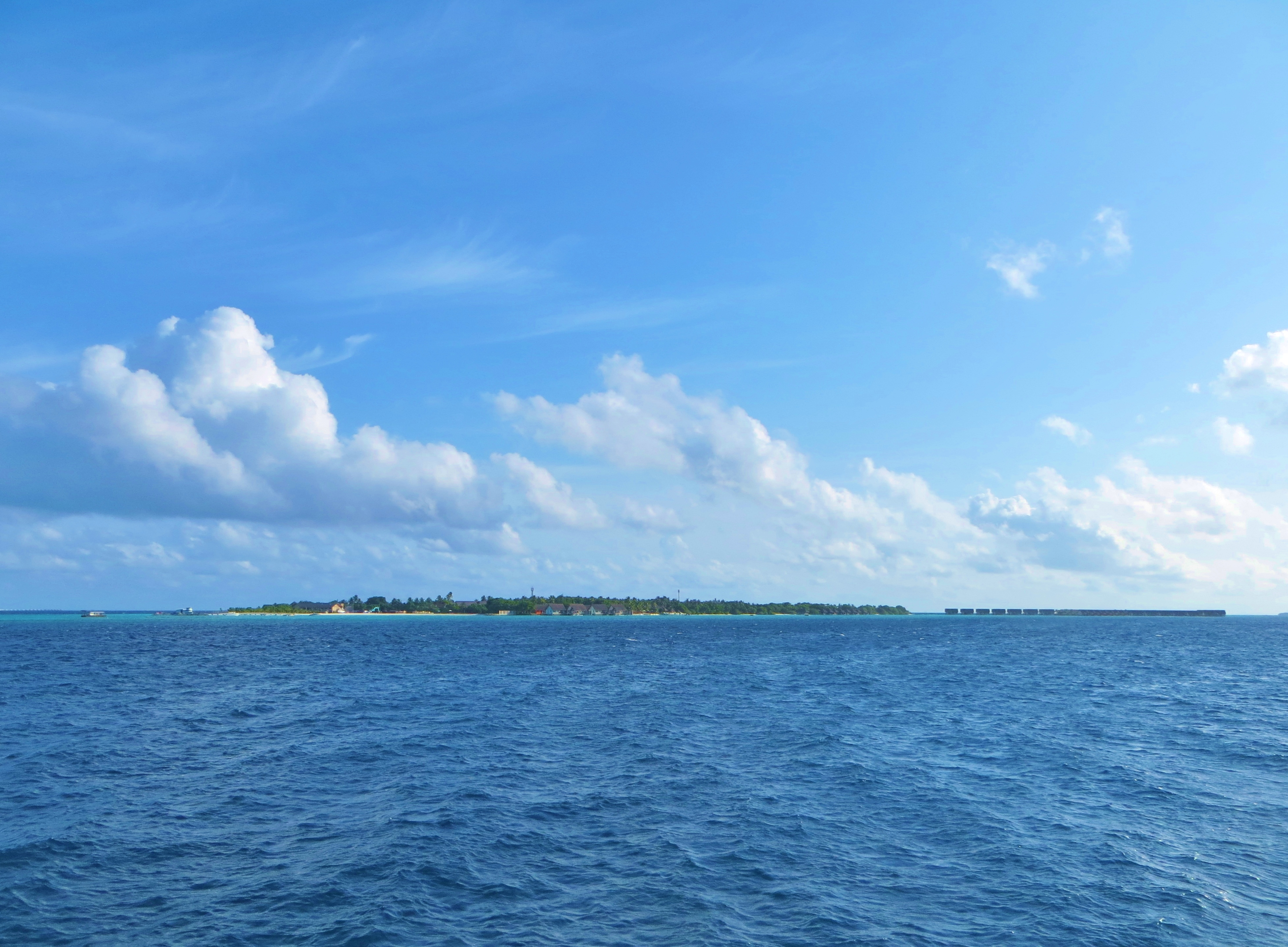 The island of Landaa Giraavaru in the Maldives (Baa atoll) seen from the east, with the 4 Season resort water villas at the right.